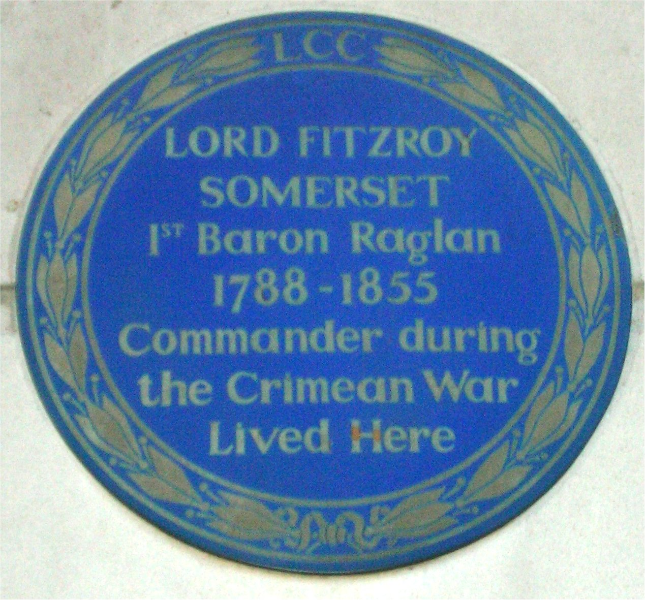 Blue plaque to FitzRoy Somerset, 1st Baron Raglan on his house in Stanhope Gate, London, England. Photographed by me 29 September 2006. Oosoom